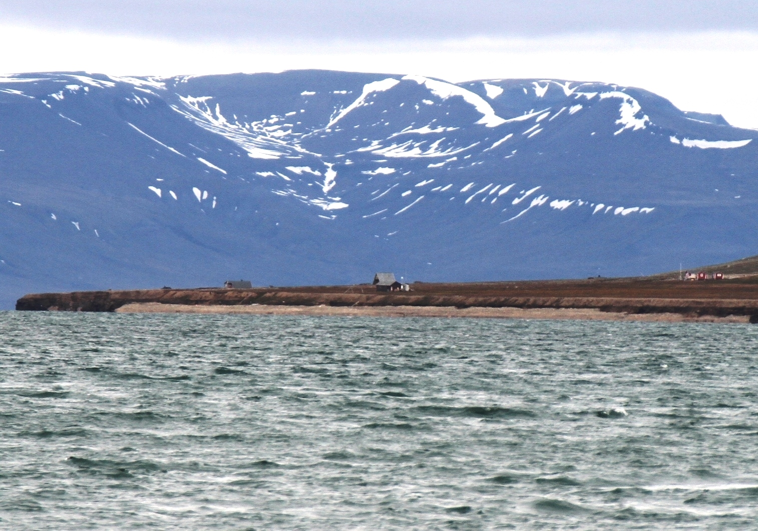 Image from the Adventfjorden bay, Isfjorden / Longyearbyen, central Spitsbergen. Reveneset cape.